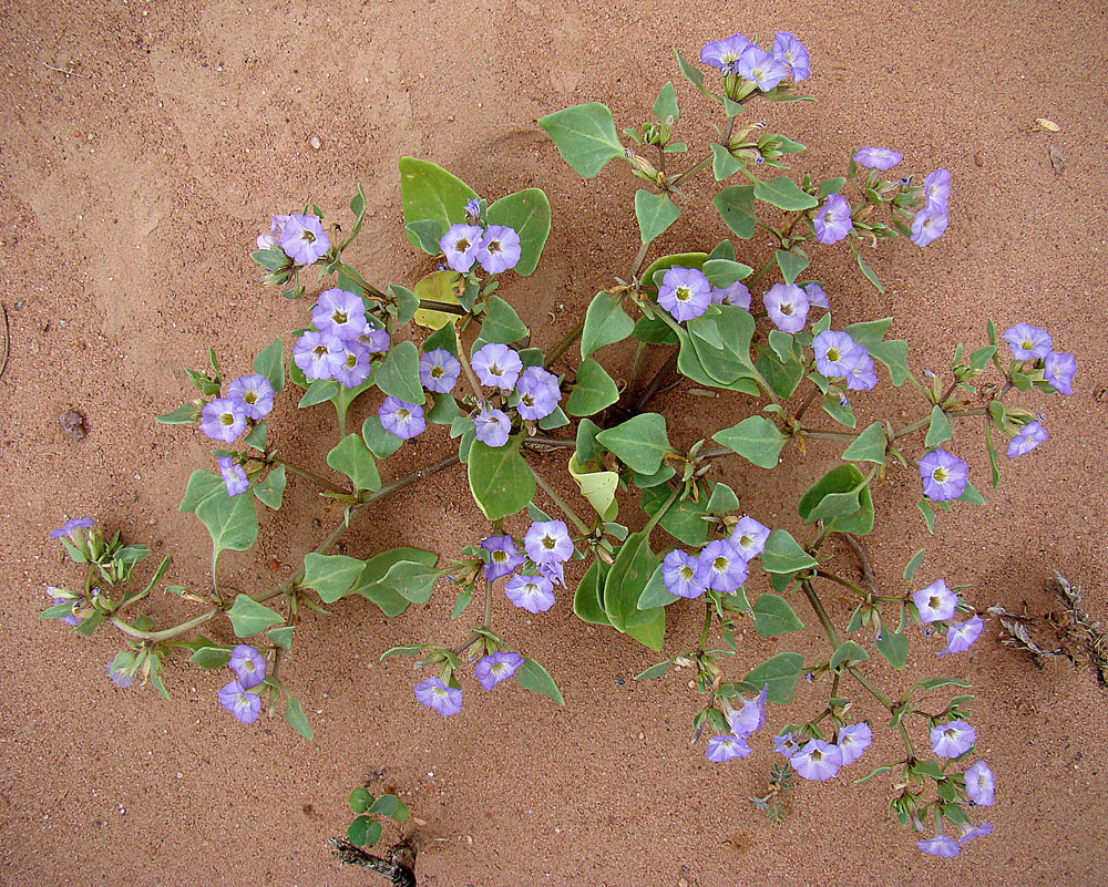 From La Rioja Province, Argentina. Many authorities give this genus its own family. In context at